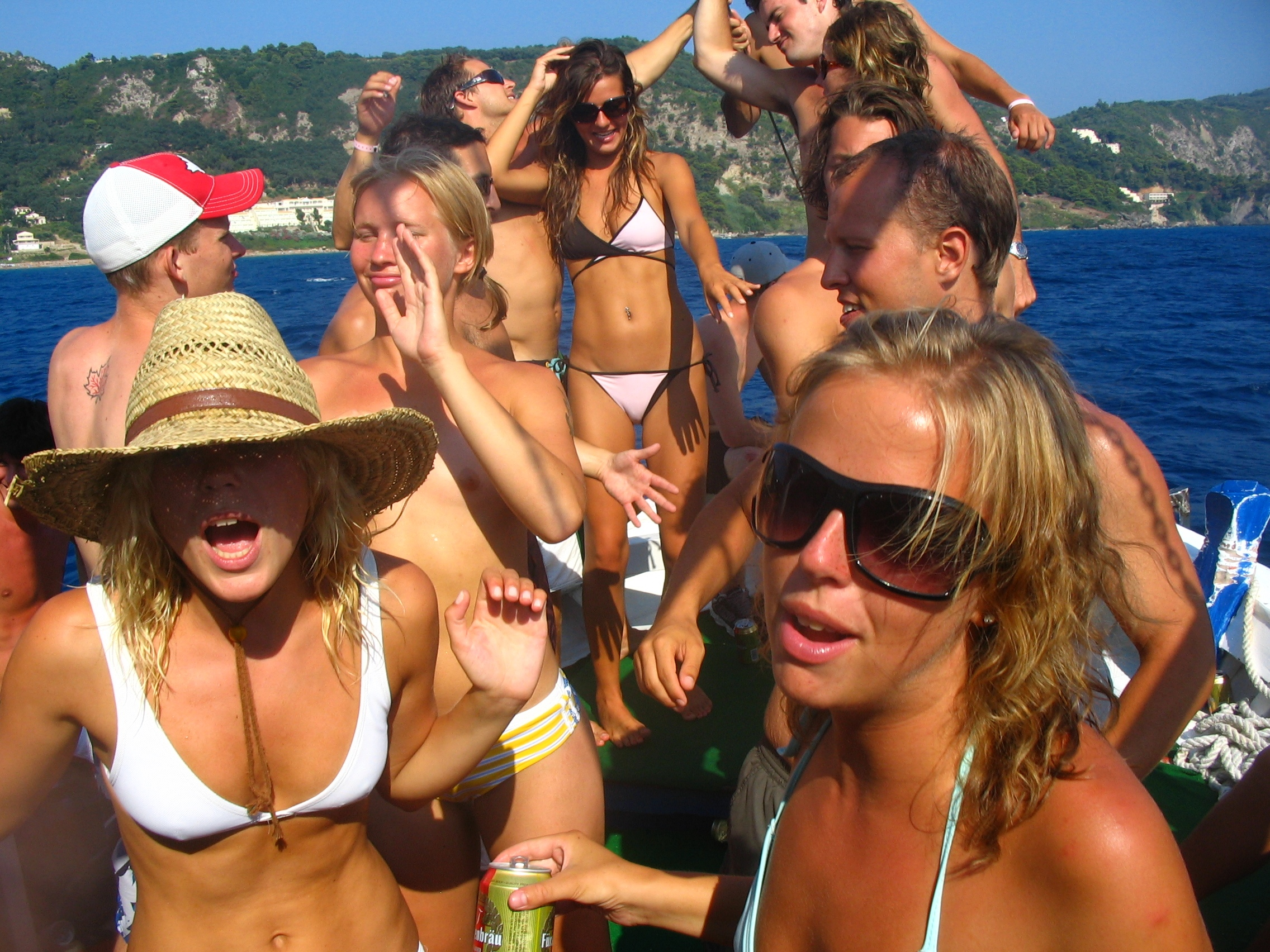 A photo from the Booze Cruise at The Pink Palace in Greece.